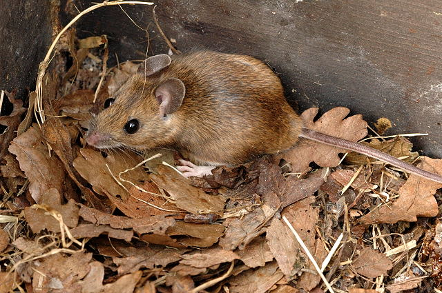 Apodemus flavicollis from Commanster, Belgian High Ardennes (50°15'20N,5°59'58E)